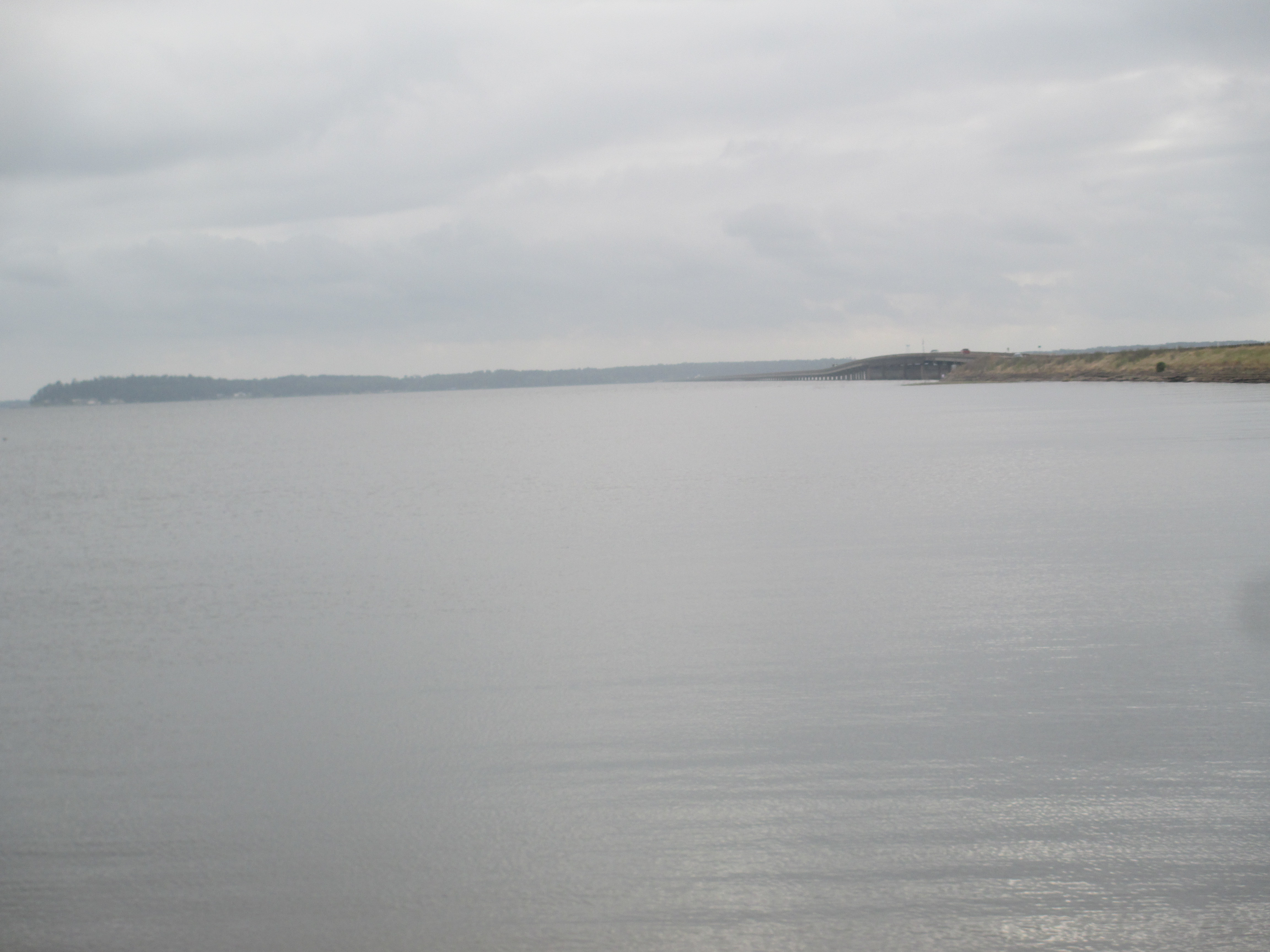 I took photo of Sabine River between Louisiana and Texas at Toledo Bend, with Canon camera.